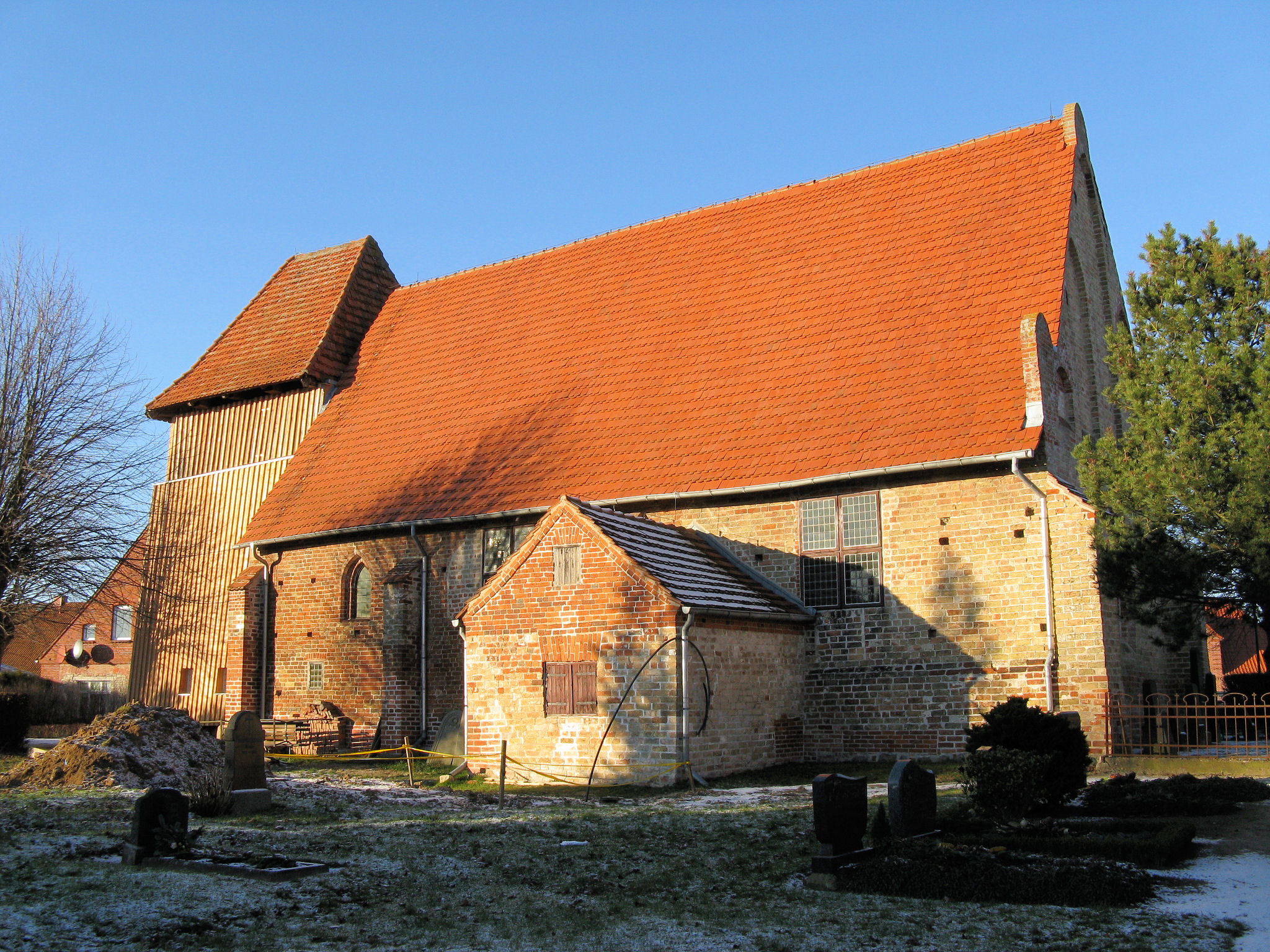 Church in Demern, Mecklenburg-Vorpommern, Germany